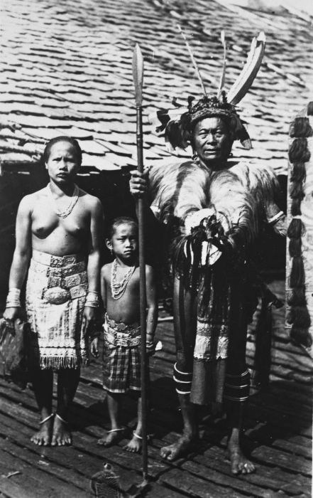 Portrait of Iban Dayaks, with the man in war attire, at the garrison site of Long Nawan